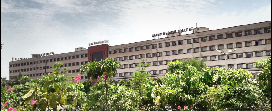 Photograph of SAIMS, Indore from front